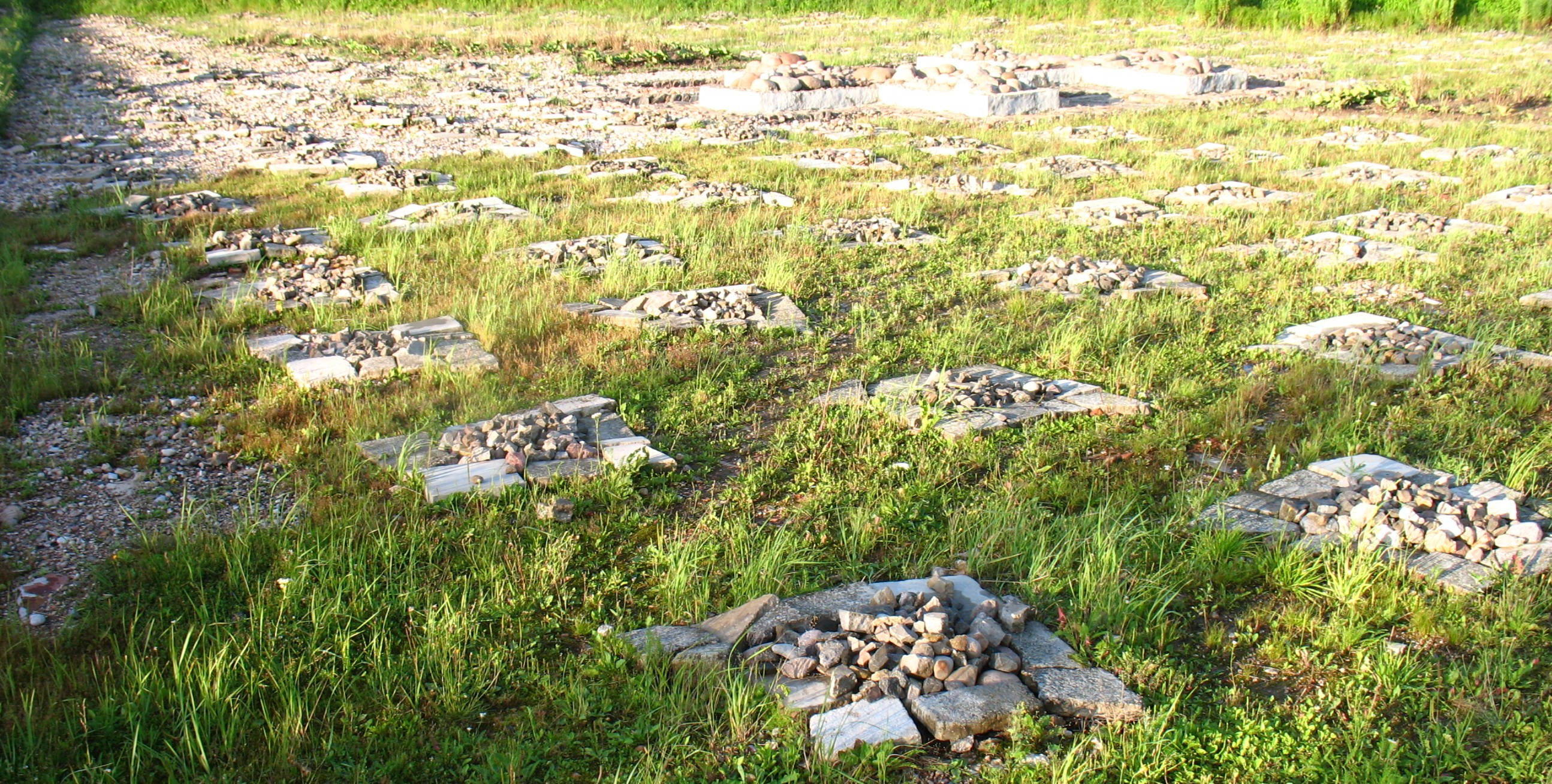 Atminimo laukas, Jonava